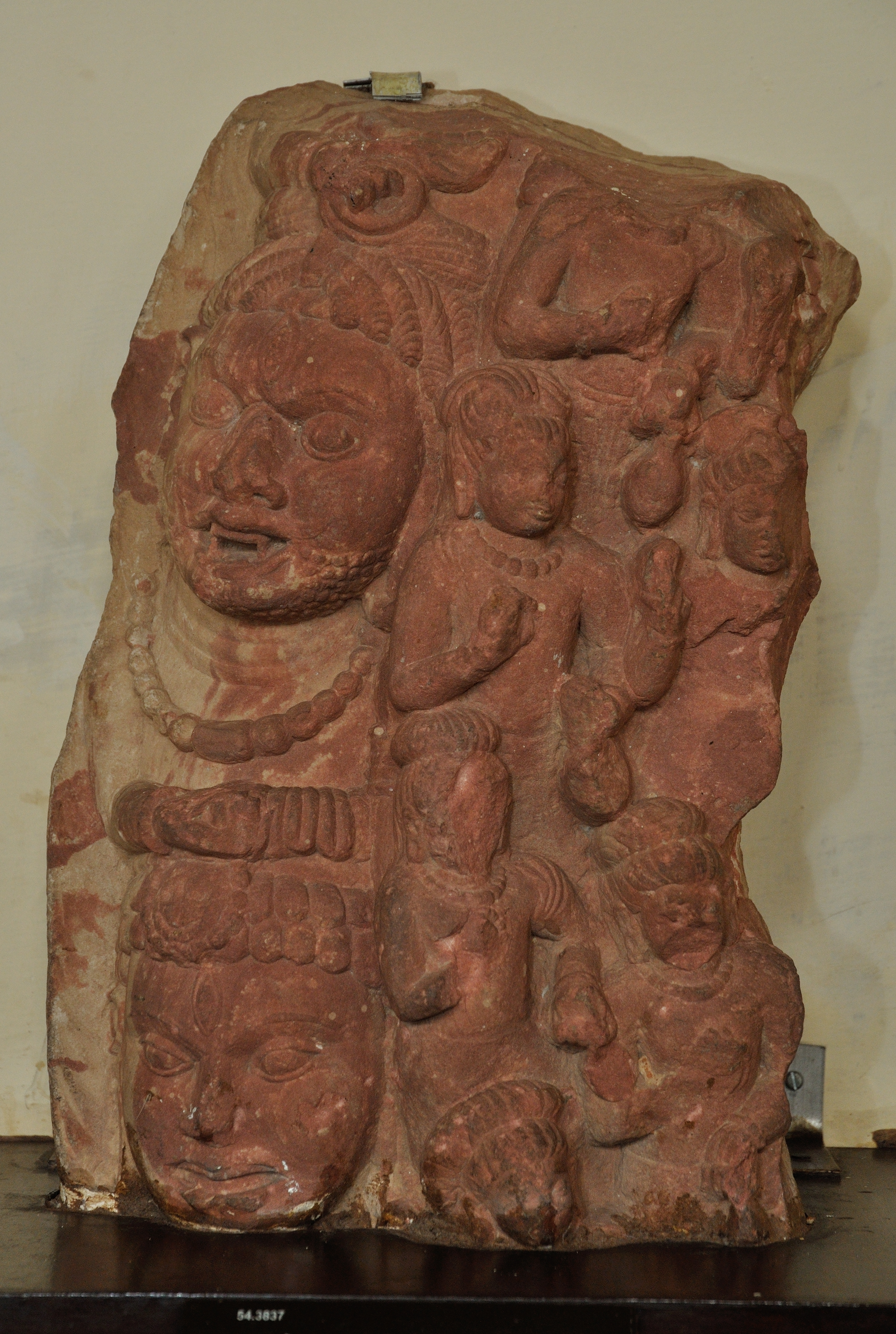 This artefact resides at the Government Museum, (hi: Rashtriya Sangrahalaya) formerly The Curzon Museum of Archaeology, Museum Road or Murari Lal Rajpal road, Dampier Nagar, Mathura, Uttar Pradesh, India. This museum is administrating by the State Government of Uttar Pradesh of India.